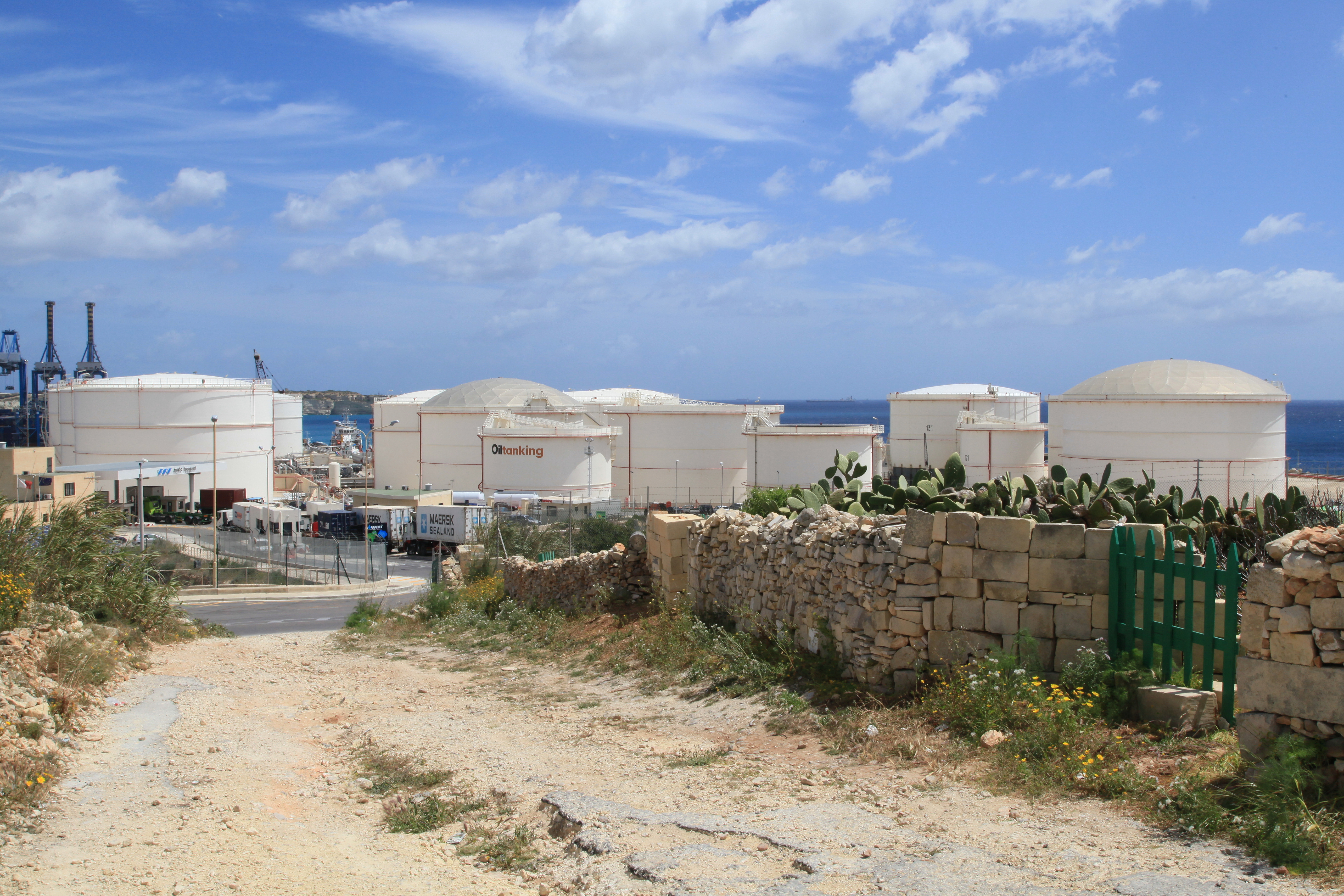 View from Triq Bengħajsa to the Malta freeport in Birżebbuġa, Malta